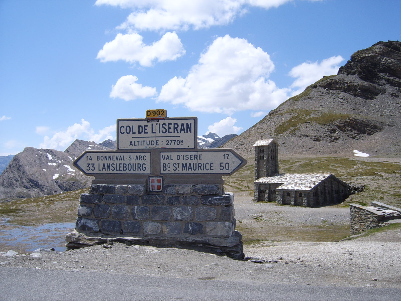 Top of the Iseran Pass (2770 m., France)